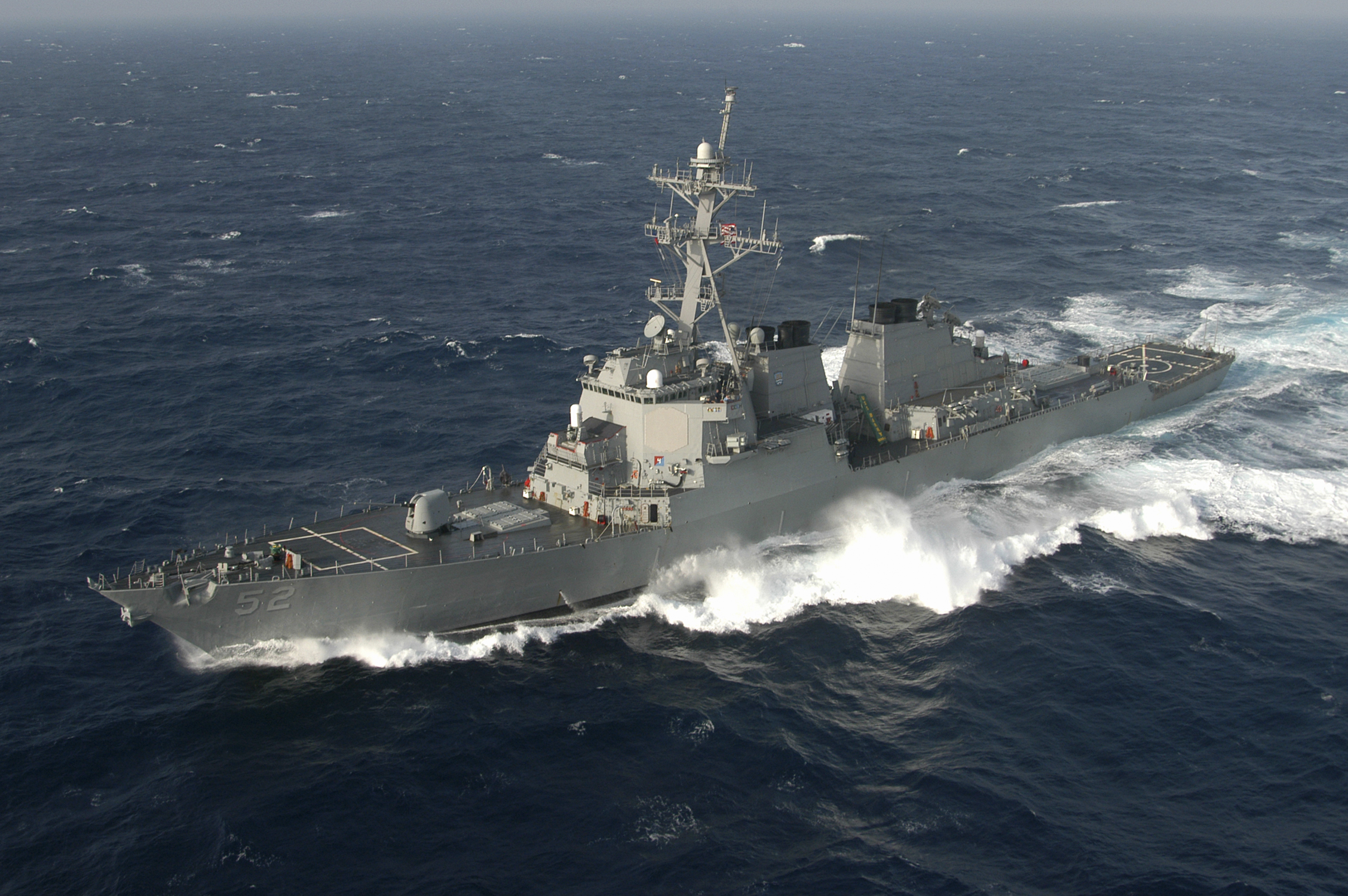 Atlantic Ocean (July 12, 2004) - The guided missile destroyer USS Barry (DDG-52) steams through the Atlantic Ocean while participating in Majestic Eagle 2004. Majestic Eagle is a multinational exercise being conducted off the coast of Morocco. The exercise demonstrates the combined force capabilities and quick response times of the participating naval, air, undersea and surface warfare groups. Countries involved in the NATO led exercise include the United Kingdom, Morocco, France, Italy, Portugal, Spain, and Turkey. Truman's participation in Majestic Eagle is part of her scheduled deployment supporting the Navy's new fleet response plan (FRP) Summer Pulse 2004, the simultaneous deployment of seven carrier strike groups (CSGs), demonstrating the ability of the Navy to provide credible combat across the globe, in five theaters with other U.S., allied, and coalition military forces.